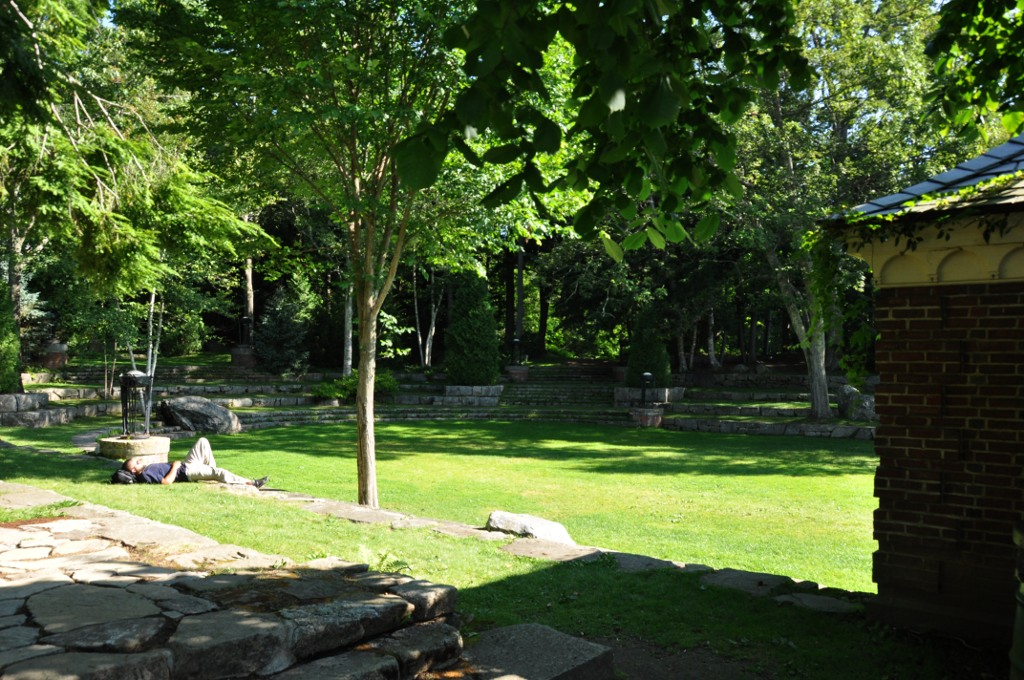 Camden Amphitheater and Public Library. Relaxing in the amphitheatre.